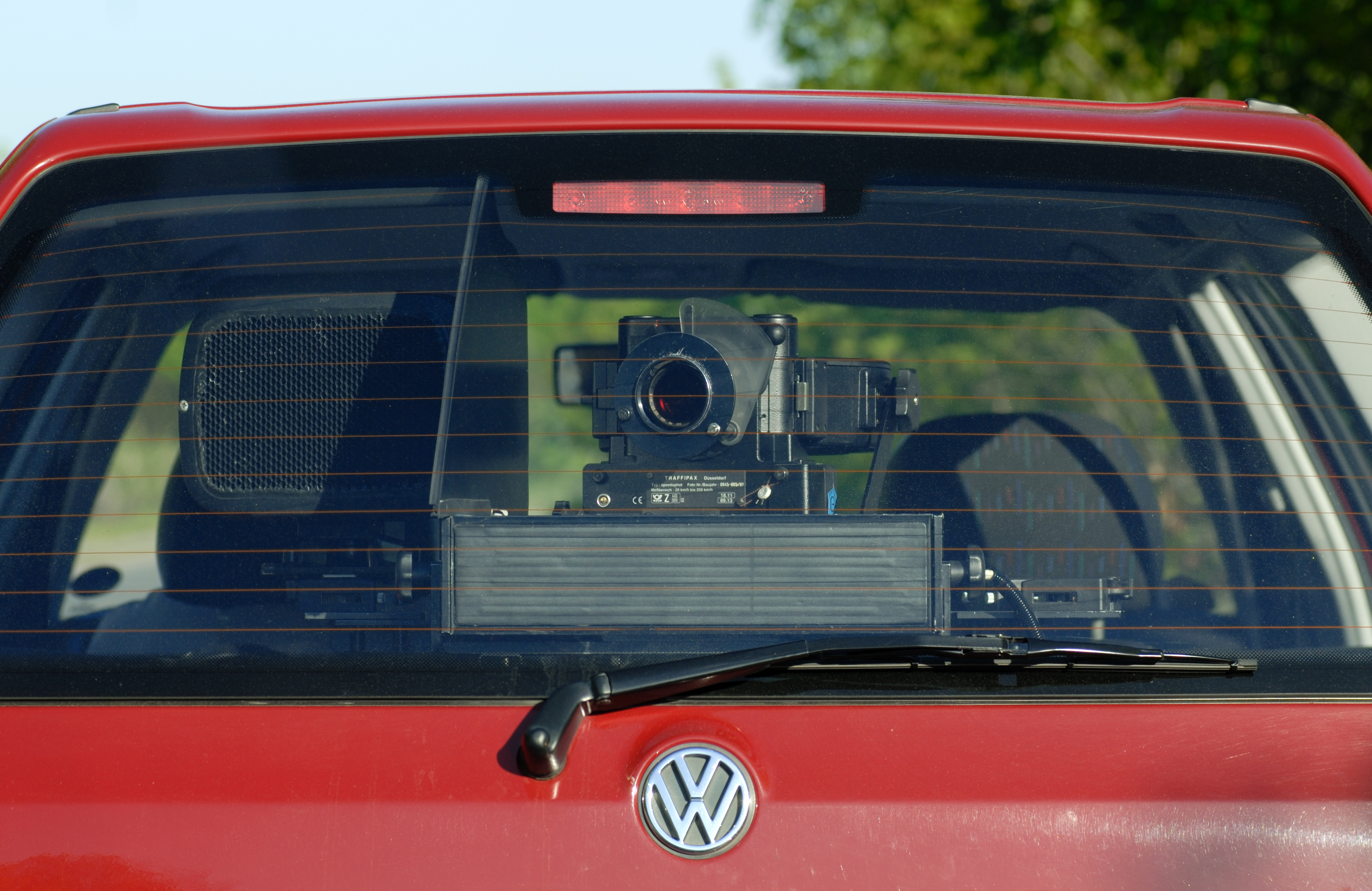 This image shows a speed camera of the type "Traffipax speedophot" mounted in a car.